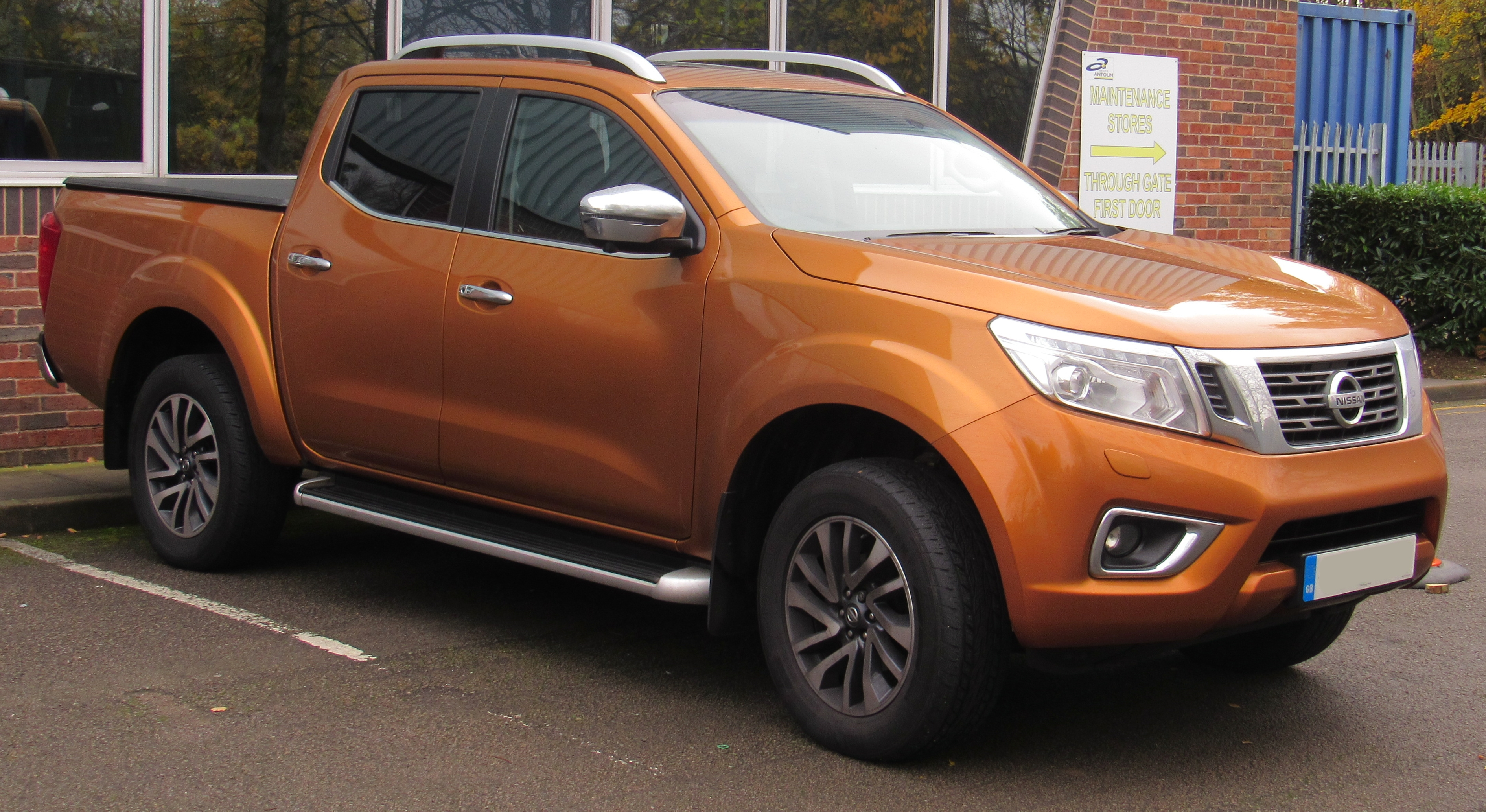 2016 Nissan NP300 Navara Tekna DCi 3.0 Taken in Leamington Spa